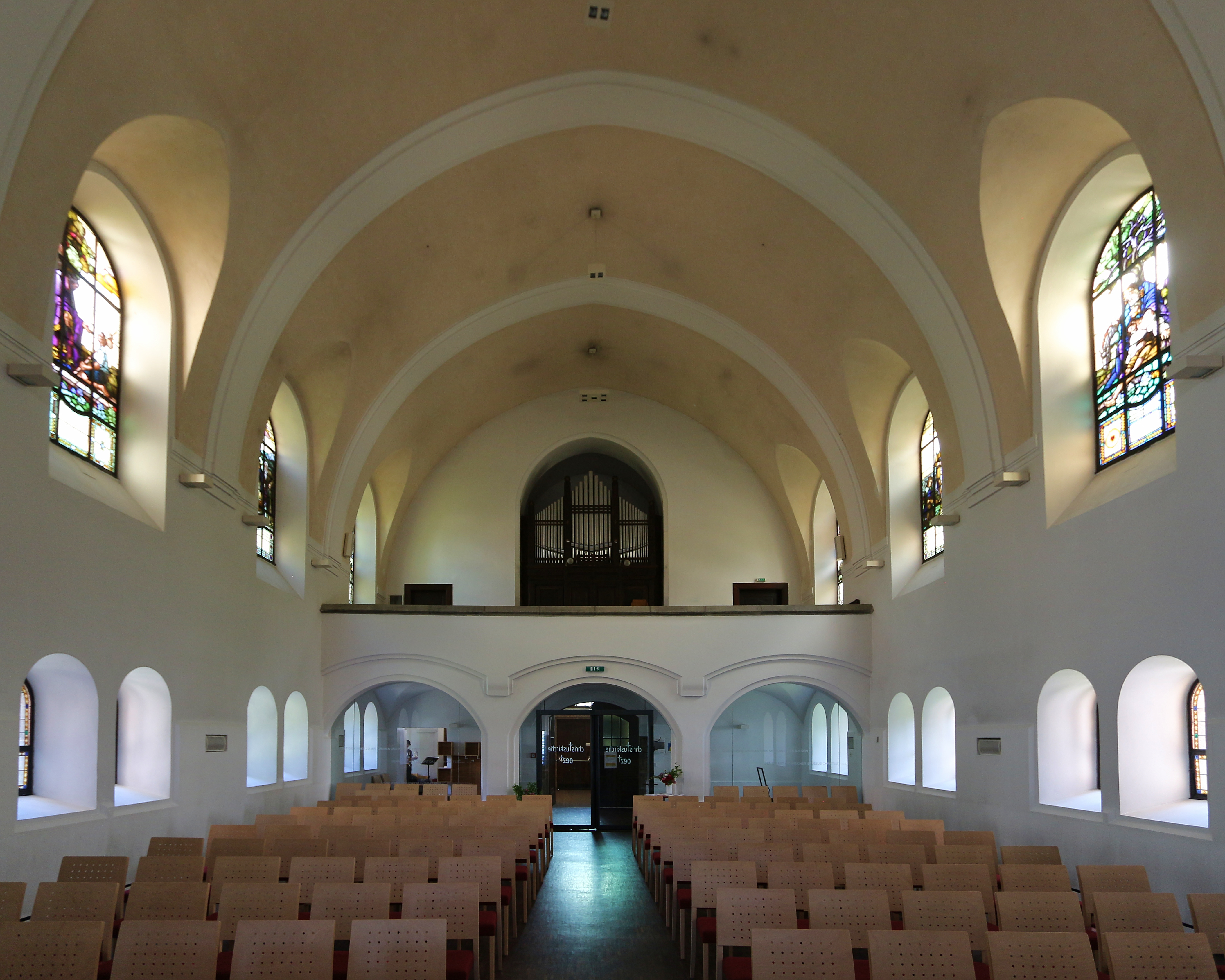 Christuskirche Innsbruck